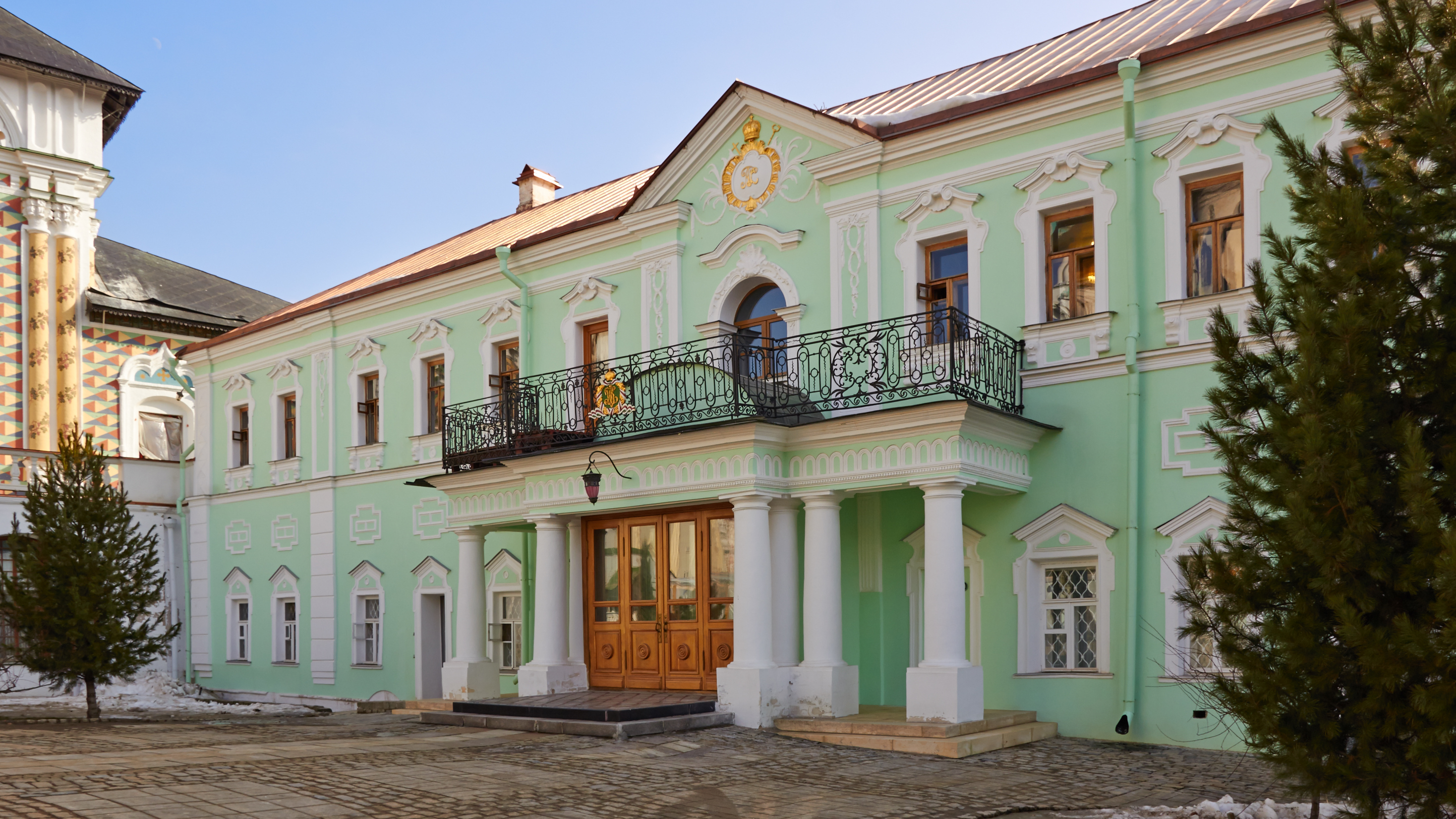 Metropolitan’s chambers, Trinity Lavra of St. Sergius